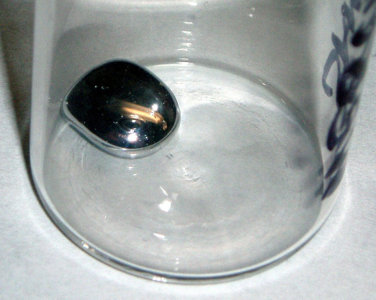 Picture I took of a small puddle of the element mercury. Releasing to the public domain. This mercury is in the process of being disposed of properly, so none of it will end up in a landfill.